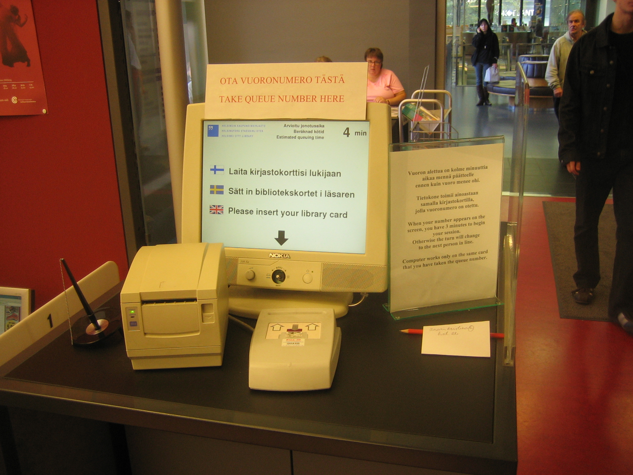 Library 10 interior